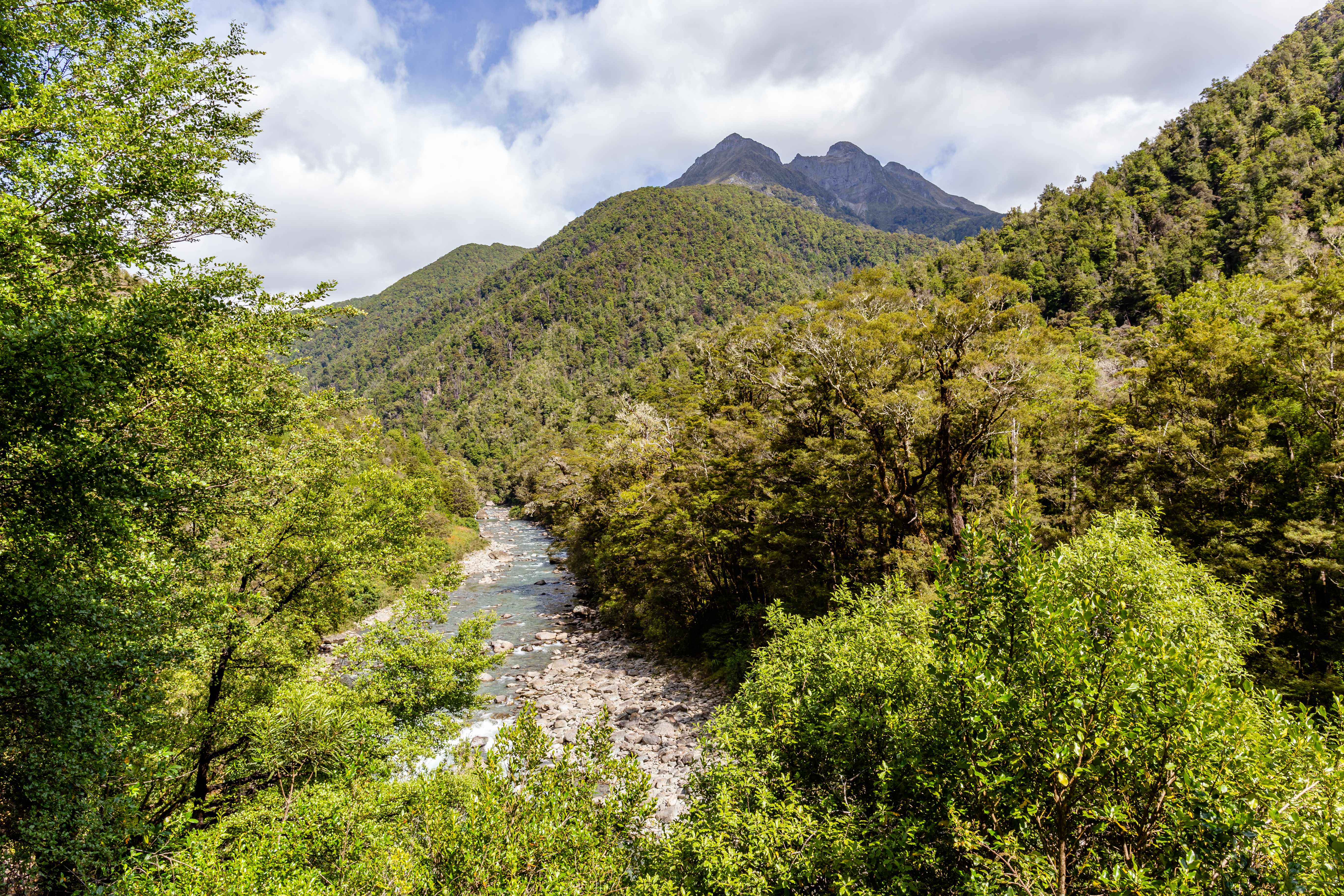 Wangapeka River and Mt Patriarch. The photo taken from Wangapeka Track, Kahurangi National Park, New Zealand